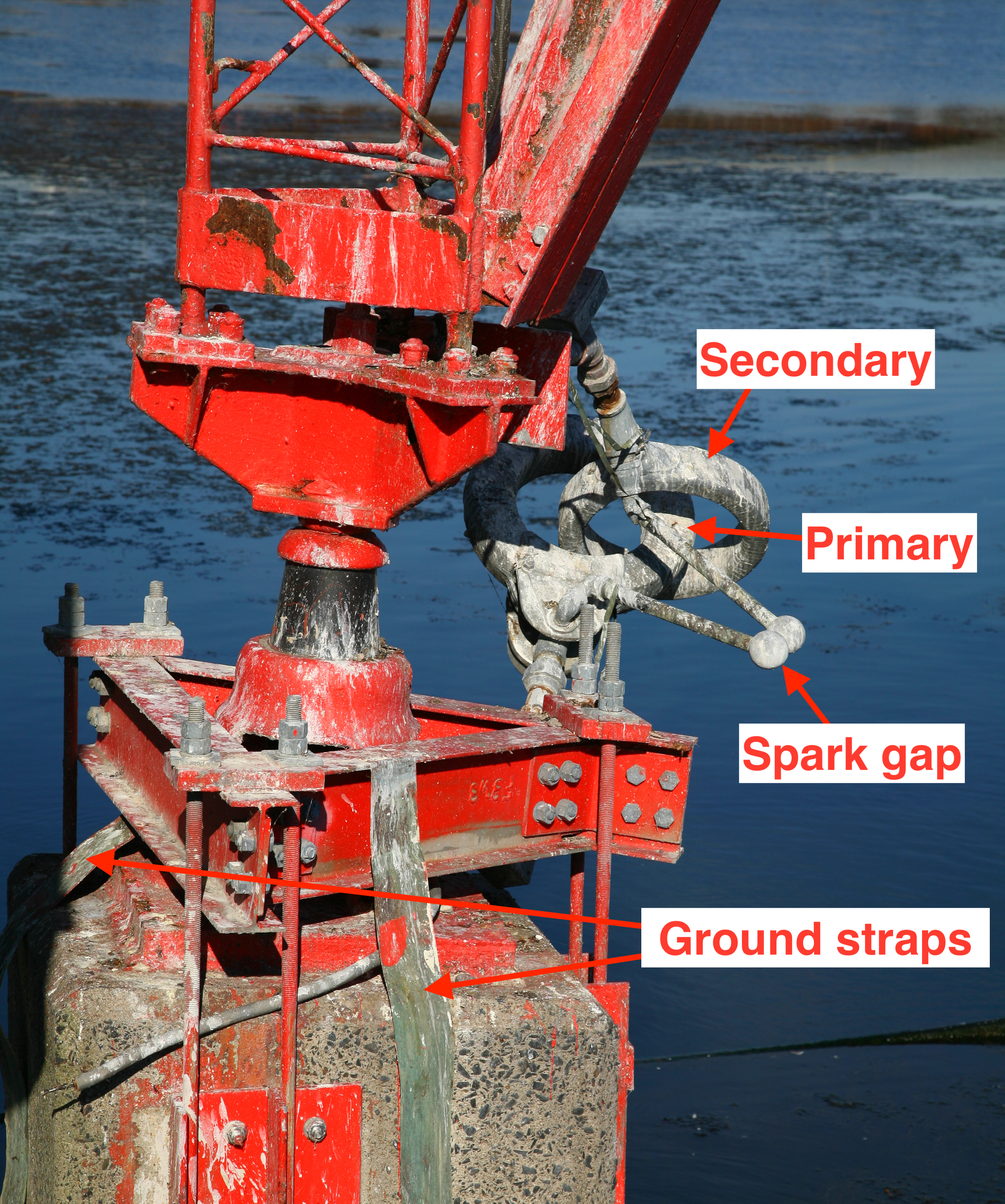 [text from Along the catwalk to the towers of WMCA/570 and WNYC/820, two New York AM stations that once fought over exclusive rights to the 570 dial position (they shared time and then WNYC lost and had to become a daytimer farther up the dial), and are now diplexed on three 326-foot Truscon towers standing in an impounded flood-control pond alongside the Hackensack River along the Belleville Pike in Kearny, New Jersey, just off the East spur of the New Jersey Turnpike. The site was still sort-of-solid swamp ground when WMCA built the facility in 1940. WNYC moved there in 1993, also becoming a full-time station, with 10kw by day and 1kw by night. WMCA has been full-time with 5kw for the duration.